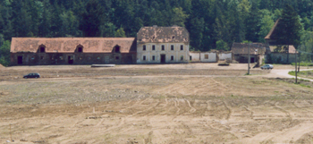 State of Bejsov Castle in 2005 after the demolition of many former farm buildings.